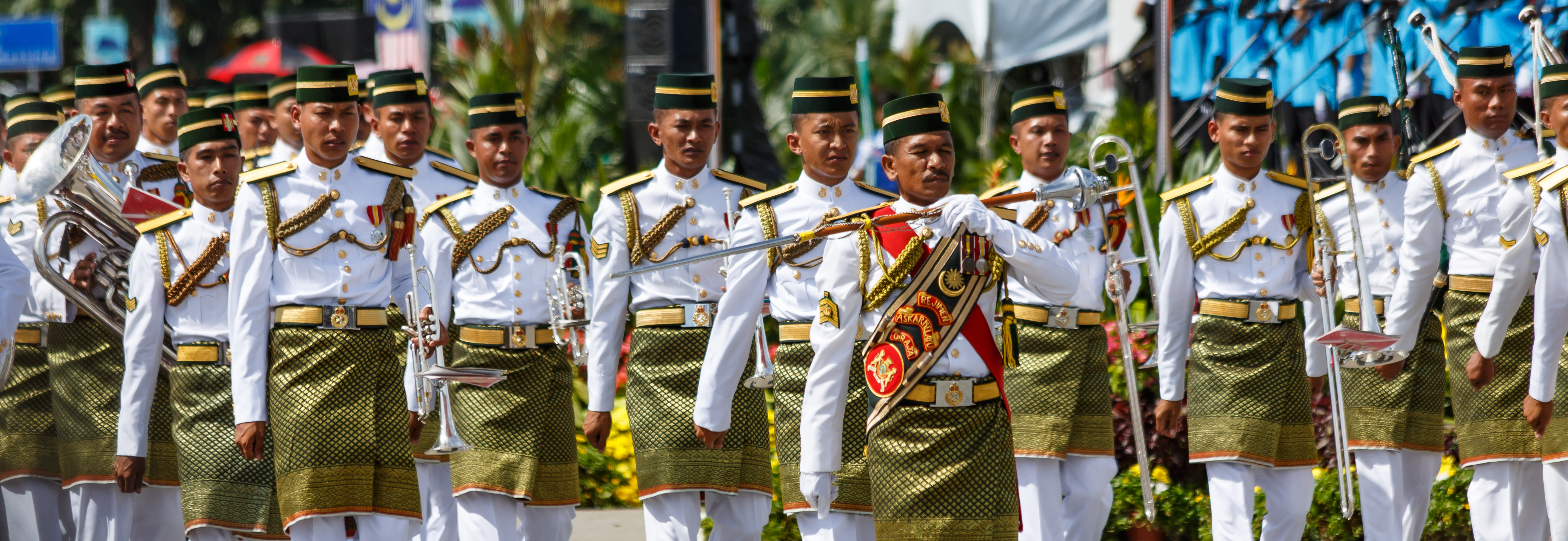 Kota Kinabalu, Sabah, Malaysia: Guard of Honour and marching band of the Royal Malay Regiment during the celebrations of Hari Merdeka 2013 in Likas on August 31, 2013